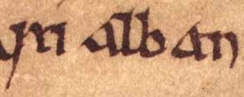 An excerpt from folio 33r of Oxford Bodleian Library MS Rawlinson B 489 (the Annals of Ulster). The excerpt concerns Cuilén mac Illuilb, King of Alba (died 971).